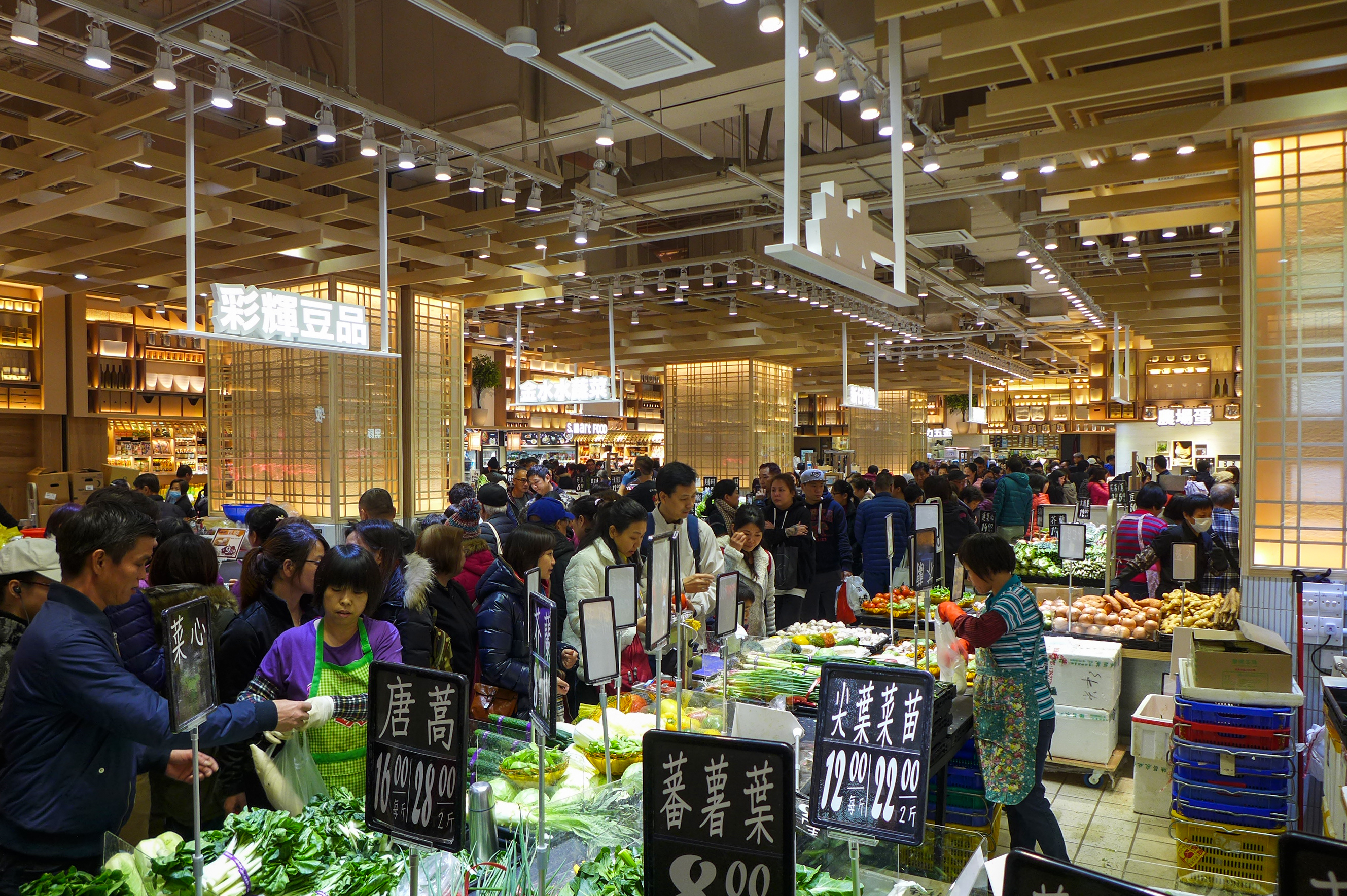 T MARKET Interior